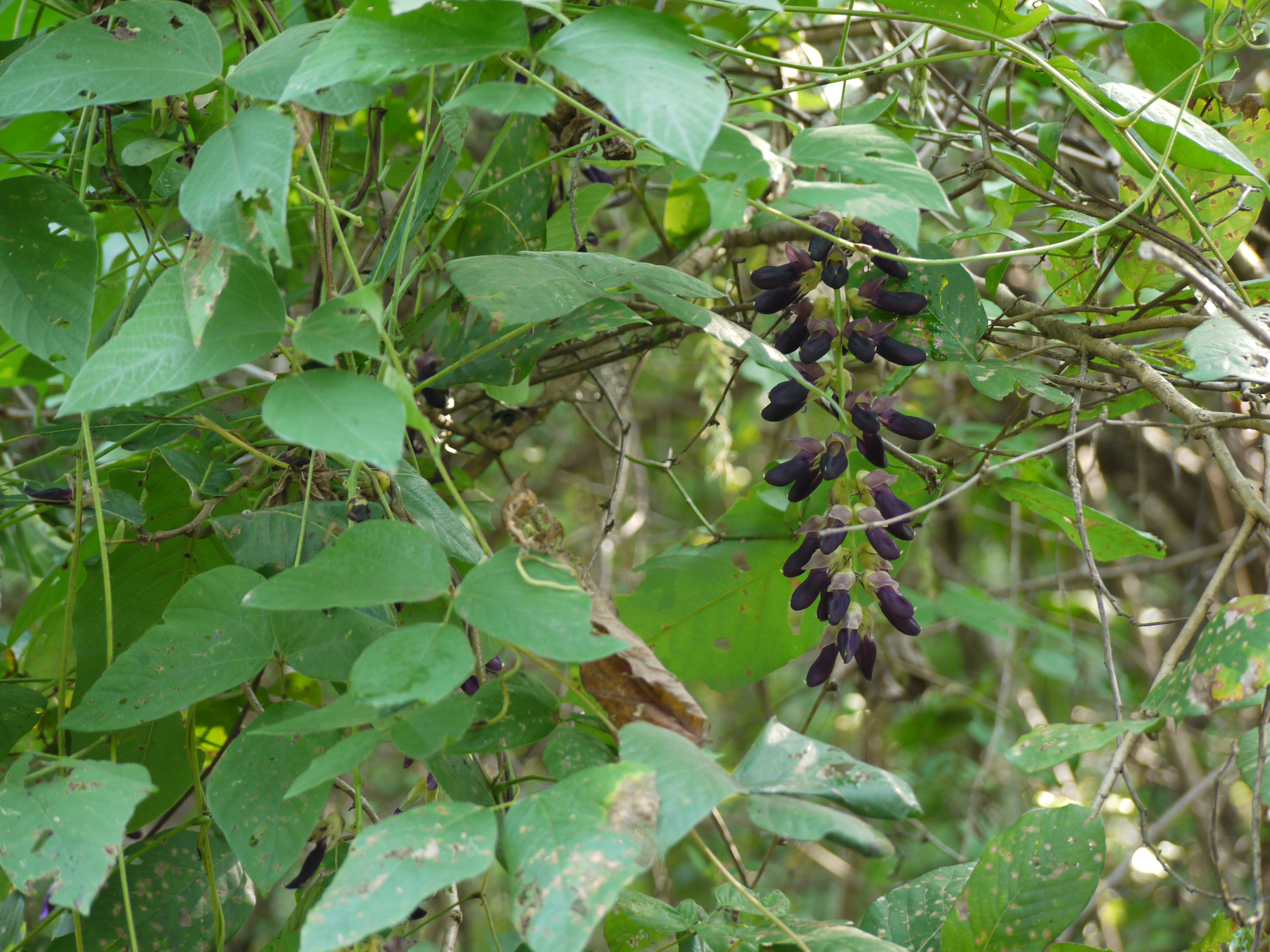 Leguminosae or Fabaceae s. l. (legume, pea, or bean family) » Mucuna pruriens myoo-KOO-nuh -- from the Brazilian name for these vines pruriens -- from Latin prurient, pruriens, present participle of prurire to itch commonly known as: bengal bean, buffalo bean, cowach, cowage, cow itch, cowhage, hell fire bean, itchweed, itchy bean, Mauritius bean, nescafe, purple jade vine, sea bean, velvet bean, wild itchy bean • Bengali: আলকুশি alakusi • Hindi: जाङ्गली jangali, जड़ा jara, कवांच kavanch. केवांच kevanch, किवांच kivanch, konch • Kannada: ನಸುಗುನ್ನಿ nasugunni • Malayalam: നായ്ക്കുരണ naikkuran • Marathi: कवचकुइरी kavachkuiri, कवचकुइली kavachkuili, कवसकुइरी kavaskuiri, कवसकुइली kavaskuili, खाजरीकुइरी khazrikuiri, खाजरीकुइली khazrikuili • Sanskrit: आत्मगुप्ता atmagupta, कपिकच्छ् kapikachu • Tamil: பூனைக்காலி punaikkali • Telugu: దూలగొండి dulagondi, కండూష్పల kanduspala, కపికచ్ఛూః kapikacchuh, pilliadugu • Urdu: جانگلي jangali, جڙا jara Native to: Africa, India References: Flowers of India • TopTropicals • Dave's Garden • M.M.P.N.D.